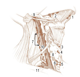 lymph chain (see details below)